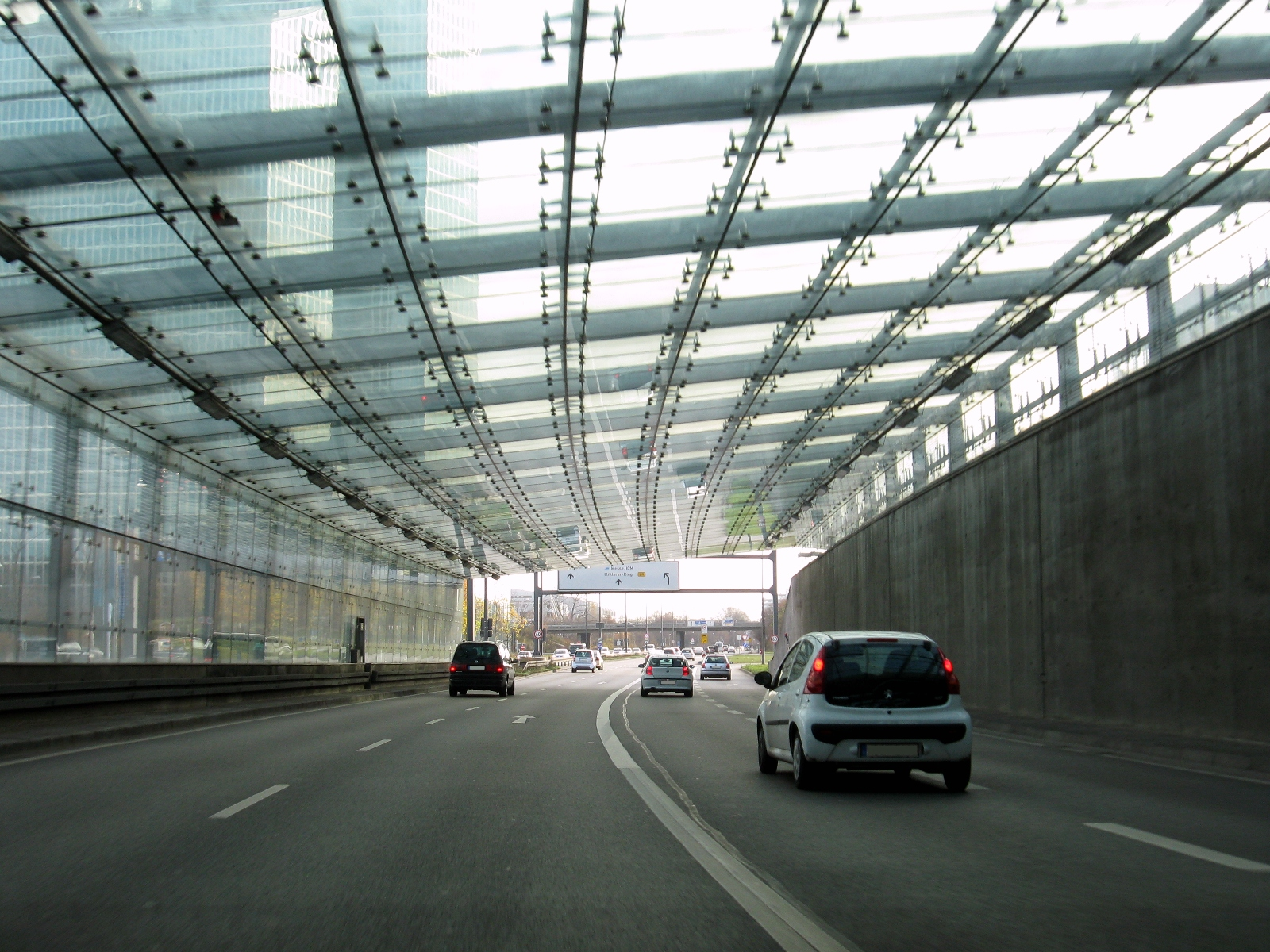 Glass enclosure of the southern carriageway of the Schenkendorfstraße (Munich, Bavaria, Germany) just before the ramp to the A 9. In the background the “Münchner Tor” is visible.